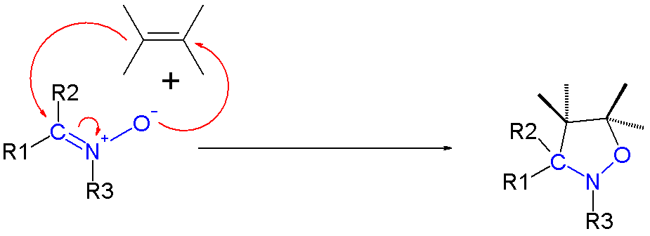 Nitrone_cycloaddition